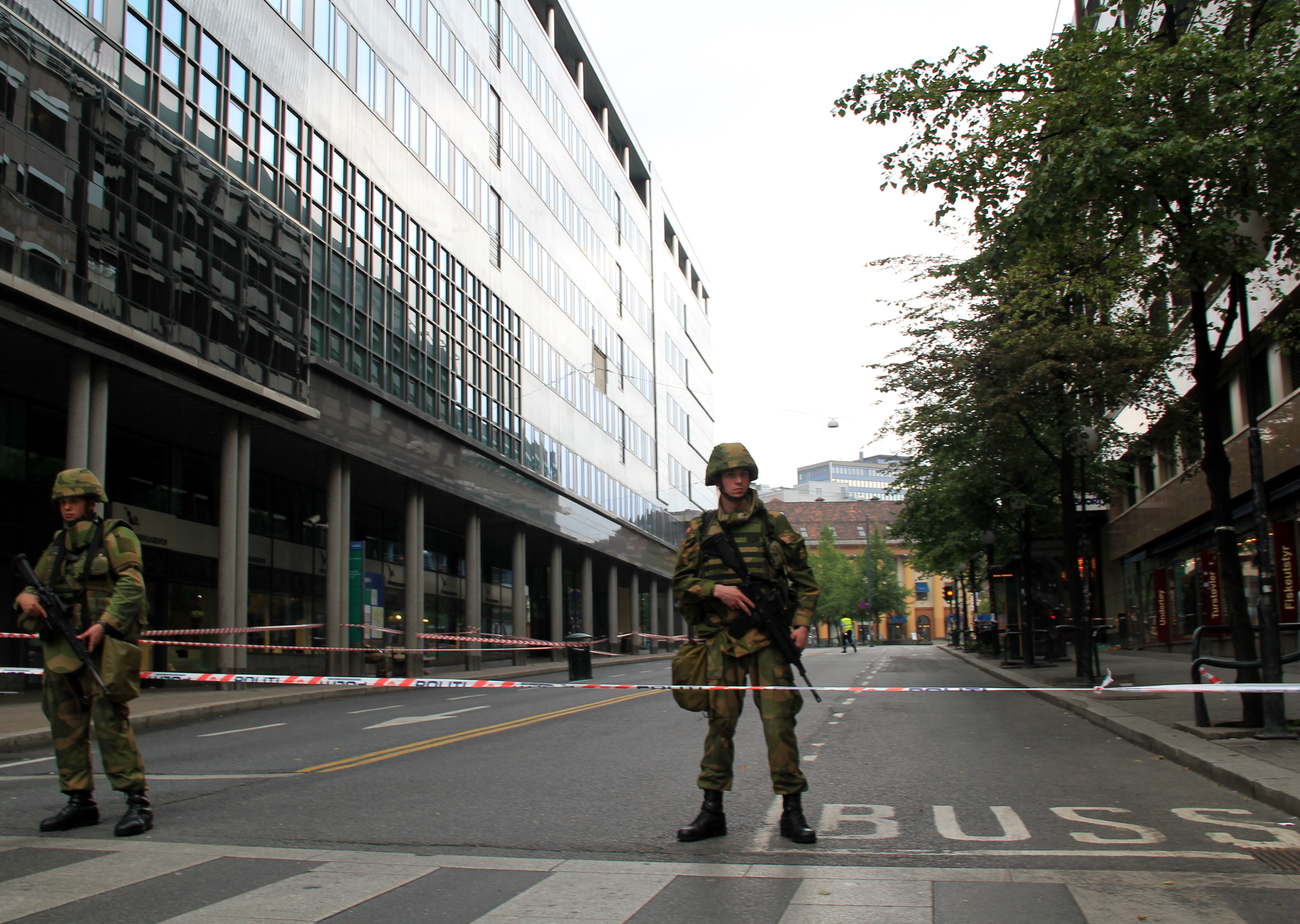 Hammersborggt Oslo, part of the closed and protected parameter